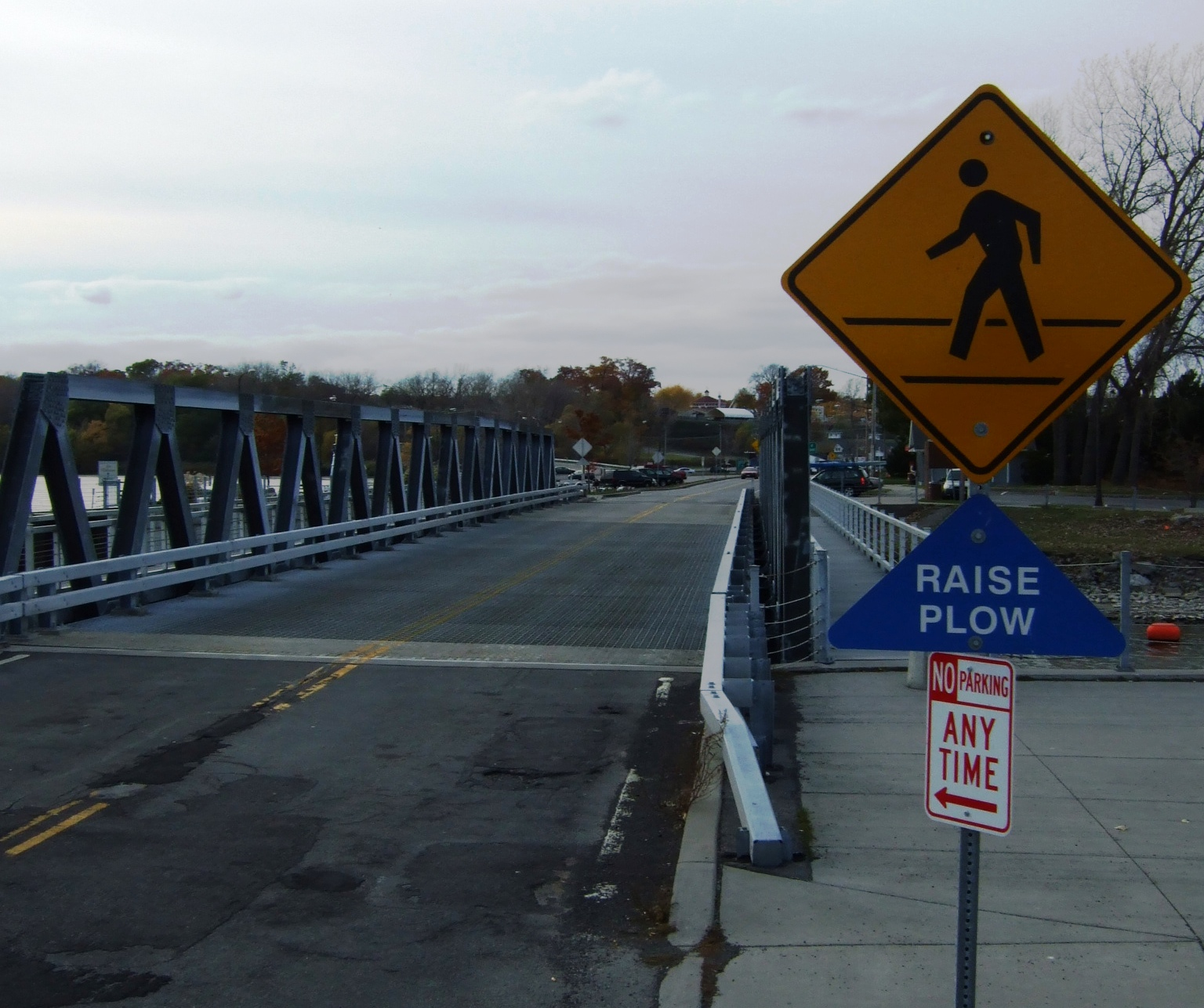 Looking across the Irondequoit Bay Outlet Bridge from its eastern end (Webster, New York) in November 2007. The bridge is in the vehicular traffic position during the winter months and open for maritime traffic during the summer.